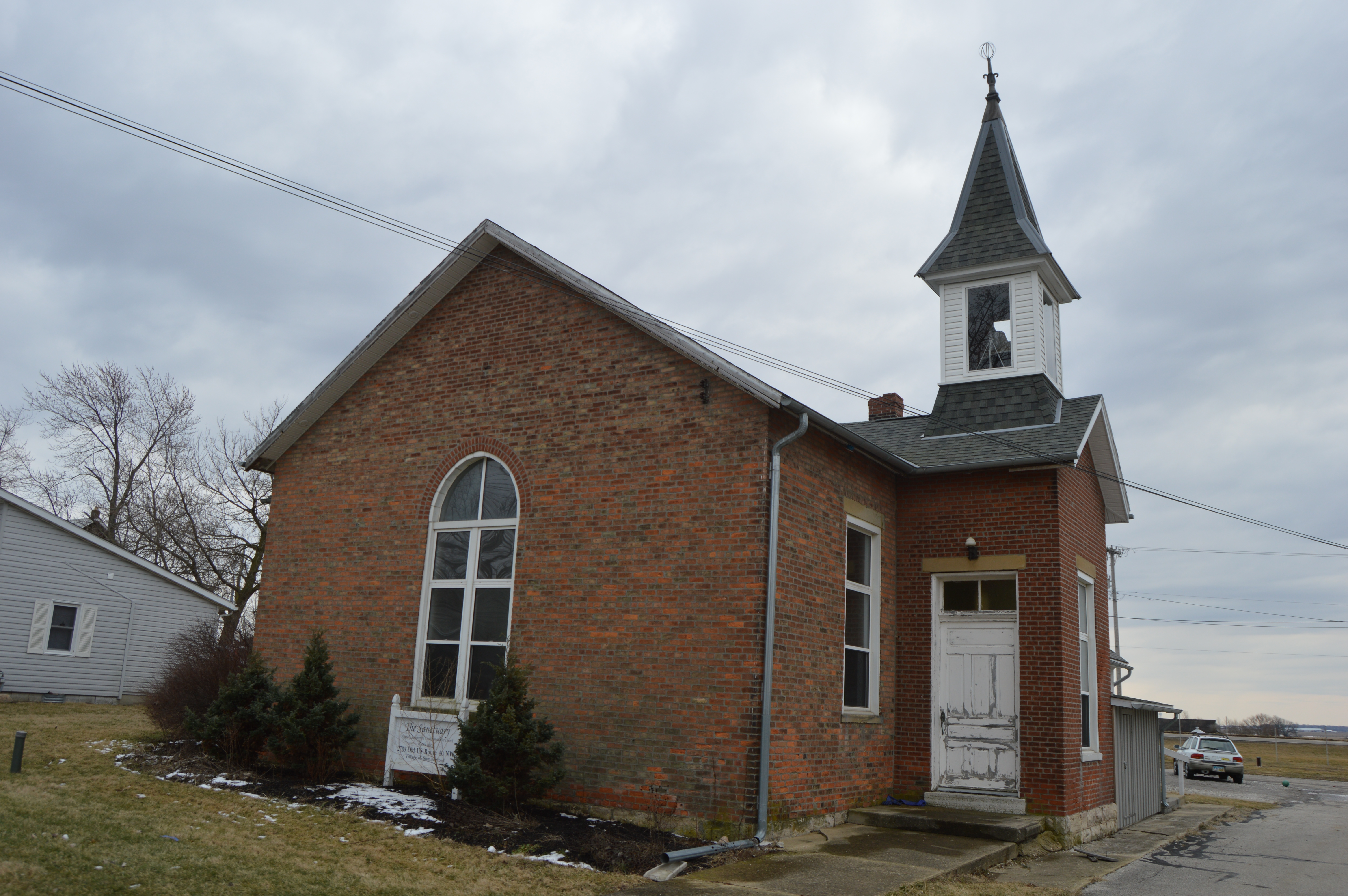 Front and western side of the former Summerford United Methodist Church, located on Old U.S. Route 40 just west of State Route 56 at Summerford in Somerford Township, Madison County, Ohio, United States. It was built in 1873.